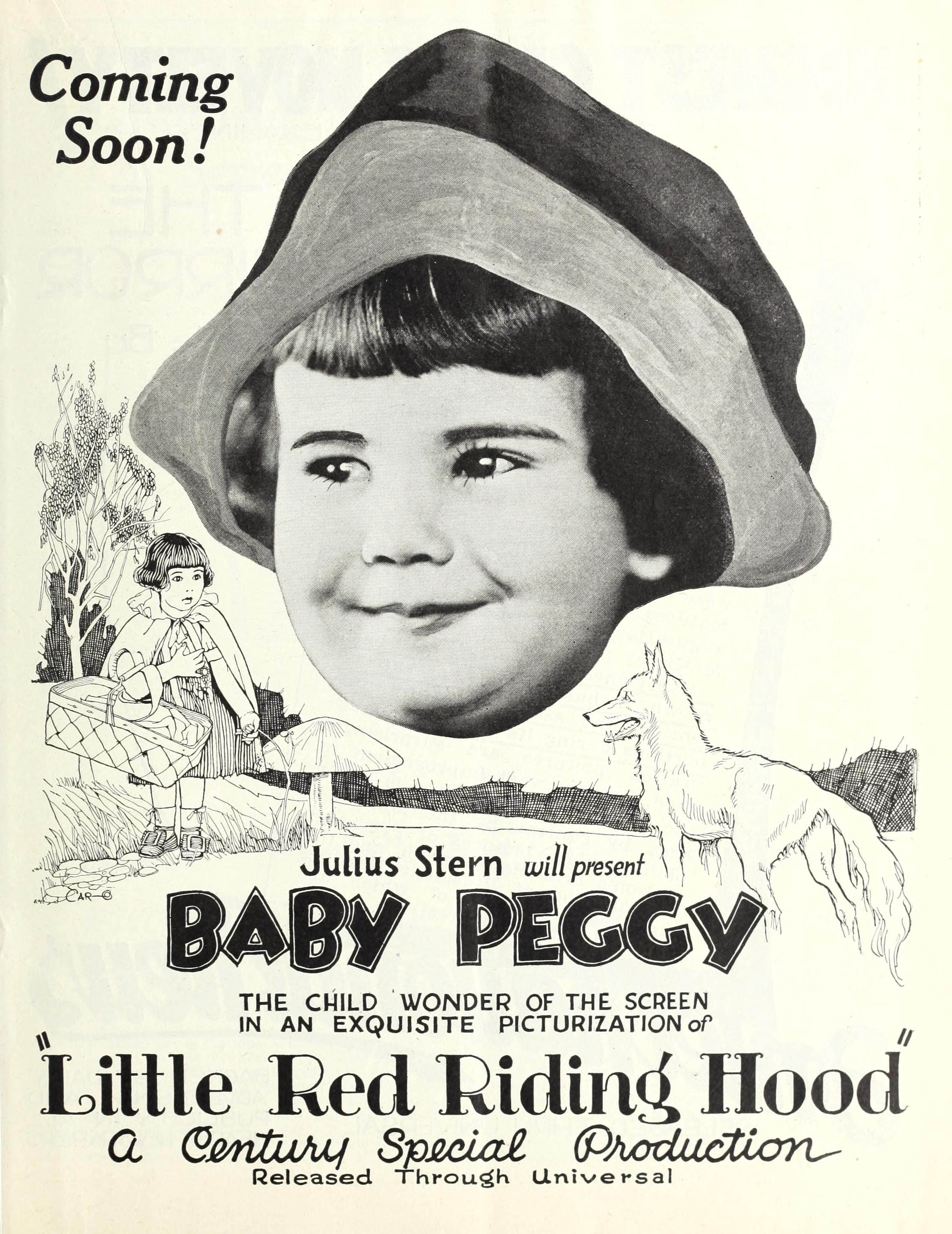 Ad for the American film Little Red Riding Hood (1922) with Baby Peggy aka Diana Serra Cary, on page 17 of the September 2, 1922 Universal Weekly.